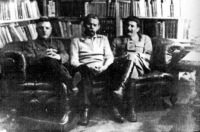 Kliment Voroshilov, Maxim Gorky and Josef Stalin, October 11, 1931.